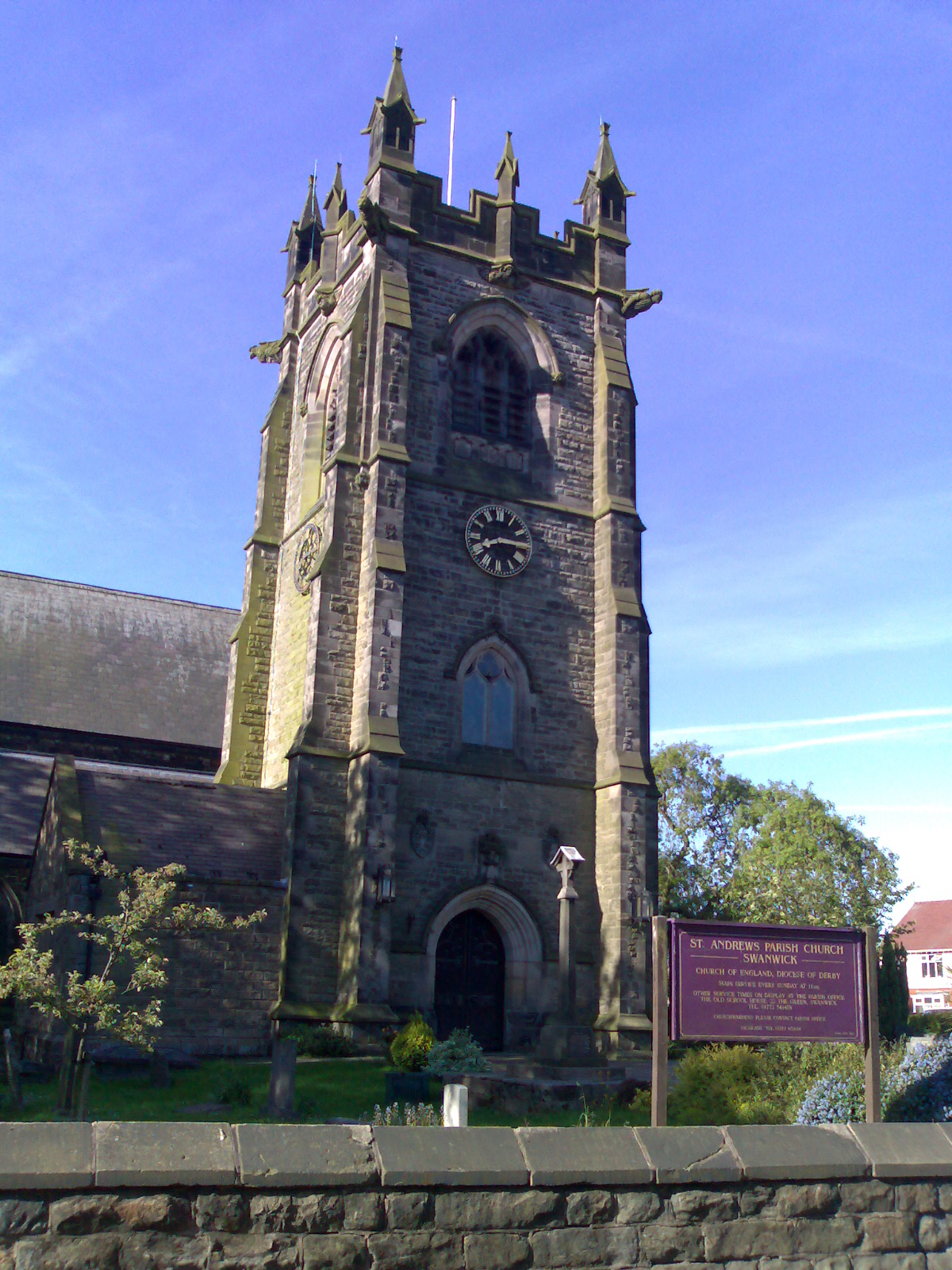 North tower of St Andrew's parish church, Swanwick, Derbyshire, seen from the north